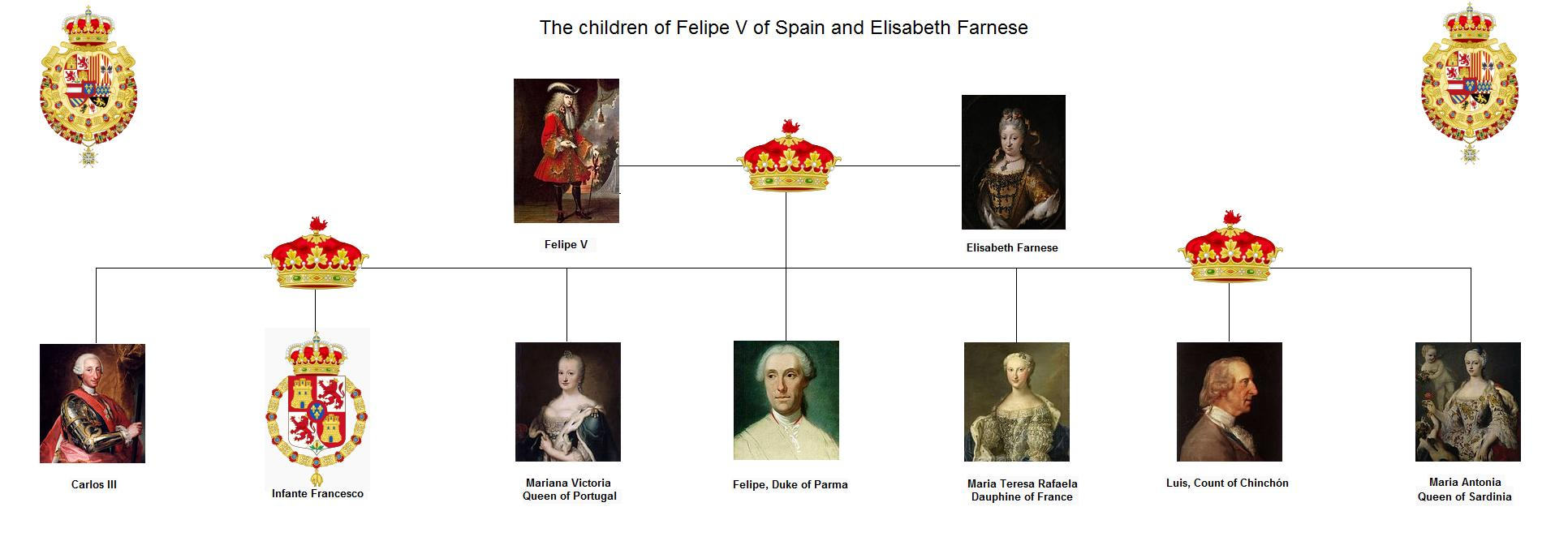 The children of Felipe V of Spain and Elisabeth Farnese